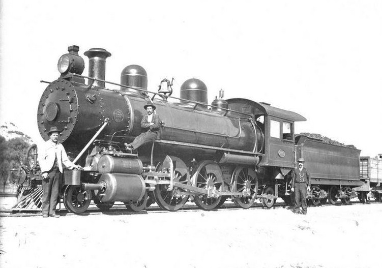 A three quarter view of WAGR Ec class steam locomotive no. Ec249, accompanied by WAGR personnel, at Kellerberrin, Western Australia.The information that this photograph was taken at Kellerberrin was obtained from the caption to Rail Heritage WA, Archive Photo Gallery image P0654, which is another version of this image.